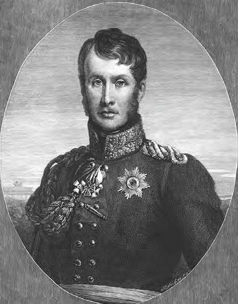 King Frederick William III of Prussia. Docile and slow to recognize the growing French threat, his decision for war in 1806 ended in national humiliation.